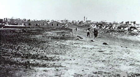 Description: Ramleh, Palestine November 1917 after occupation by Australian Light Horse with tent lines and trucks in background.